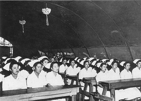 Okinawa Central Hospital (present-day "Okinawa Prefectural Chubu Hospital") Nursing School